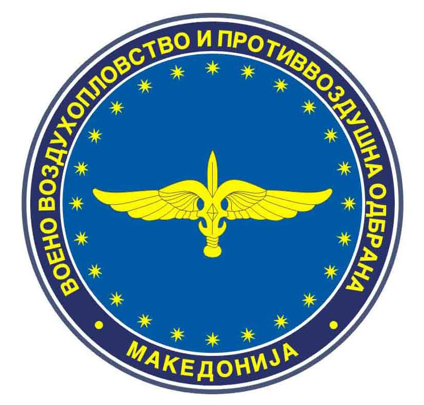 Macedonian Aviation Brigade emblem